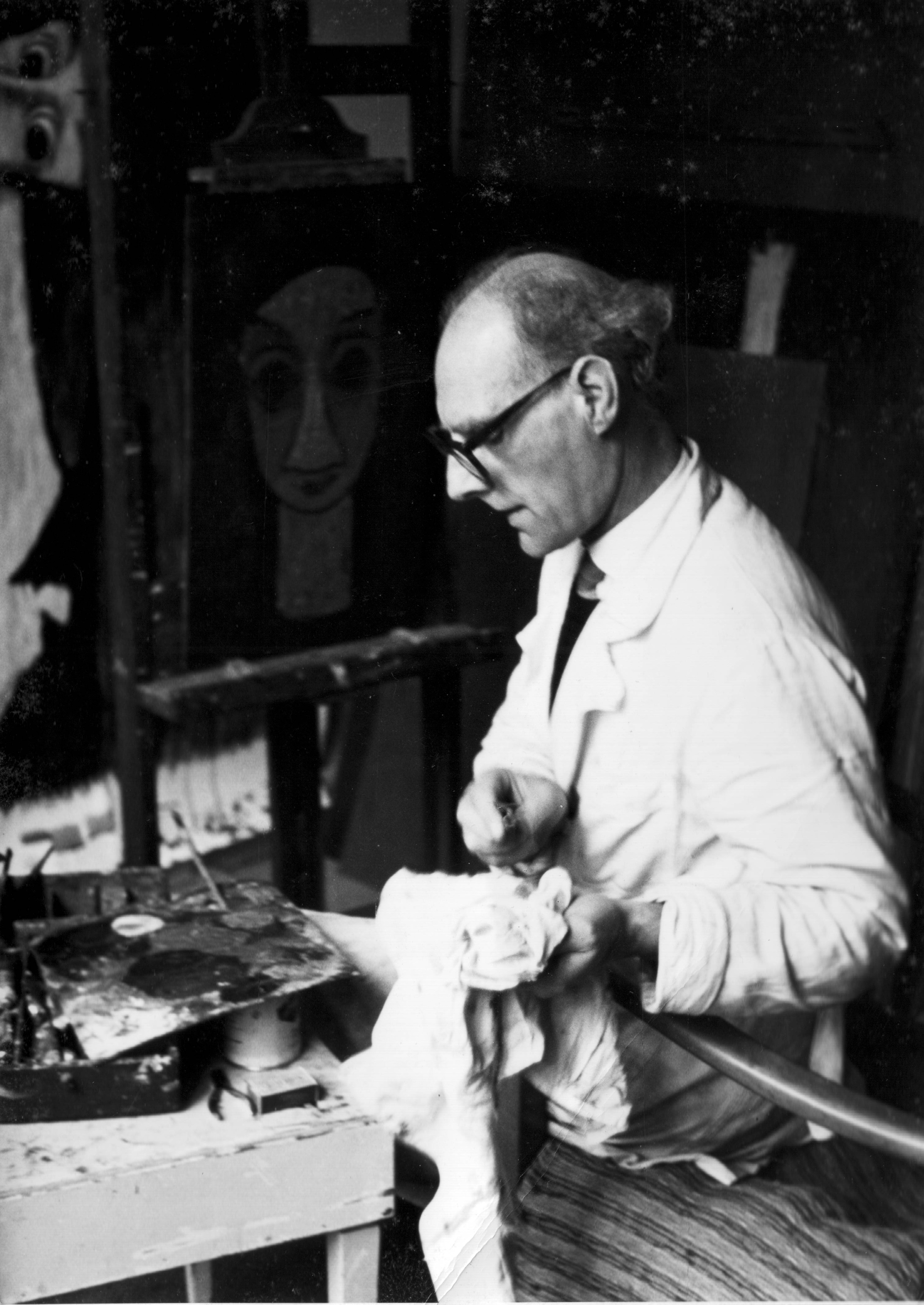 The artist at work in his studio. Date uncertain.